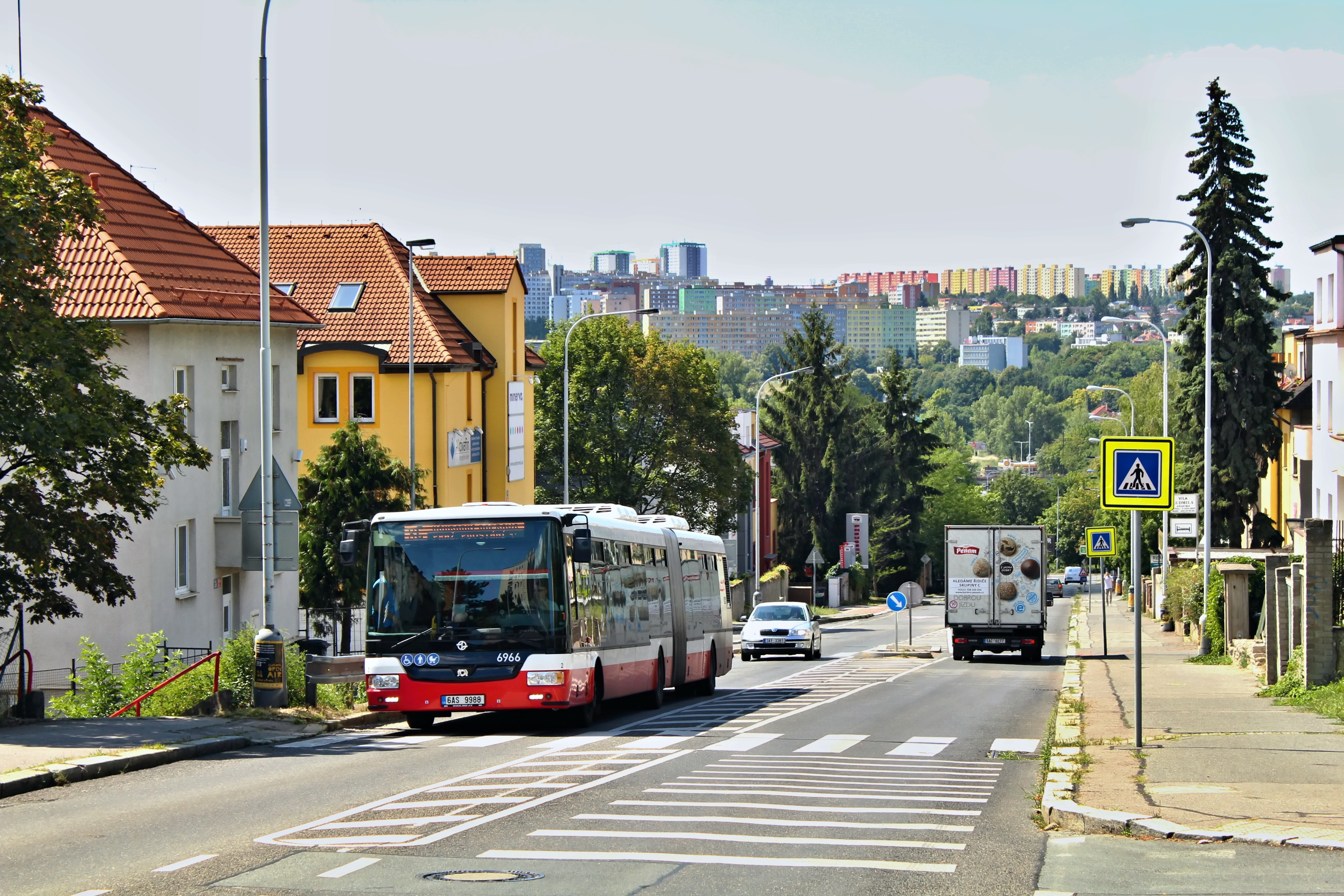 Náhradní autobusová linka XC, vůz 6966 u metra Kačerov